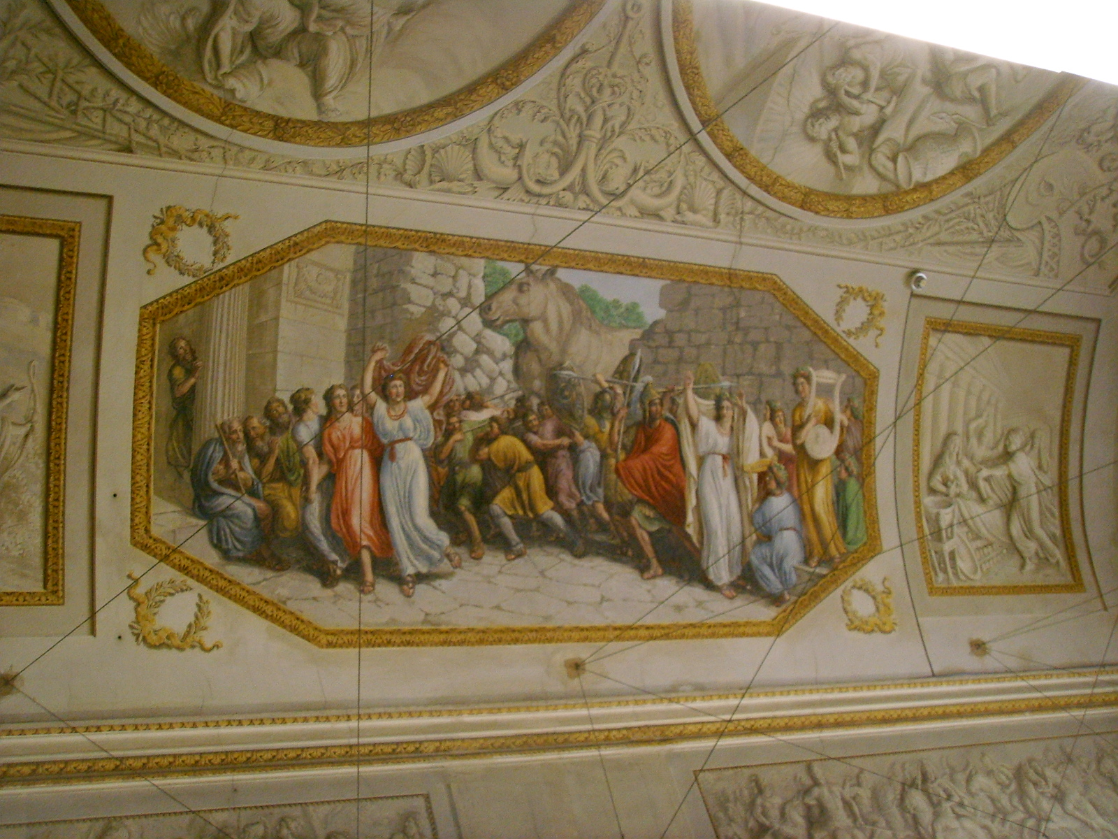 Palazzo_di_San_Clemente,_ library frescoed rooms. See filename for room ref. number Frescos of XVIII century by unknown author(s) in Florence